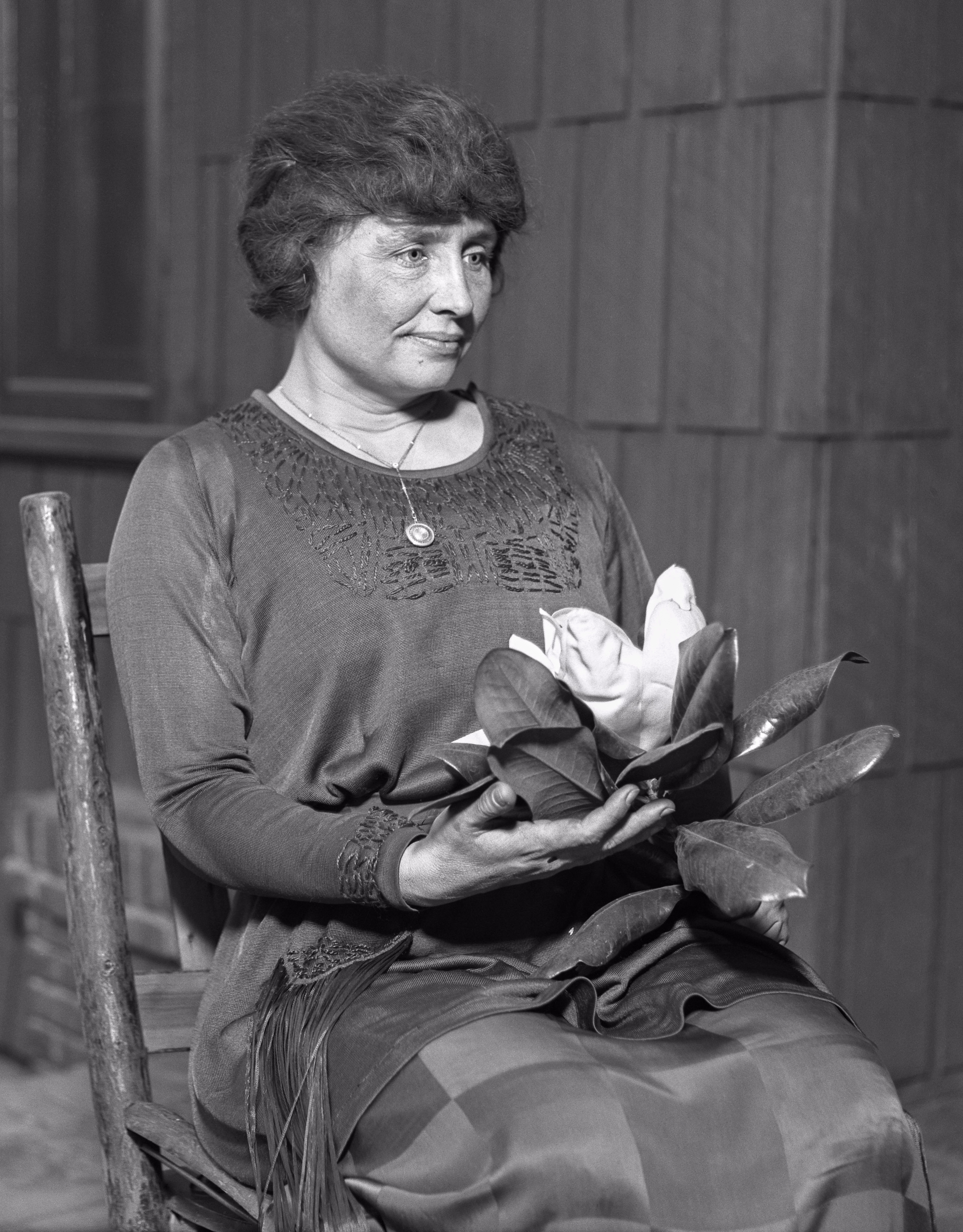 Helen Keller sitting, holding a magnolia flower, circa 1920. Image from the Los Angeles Times.